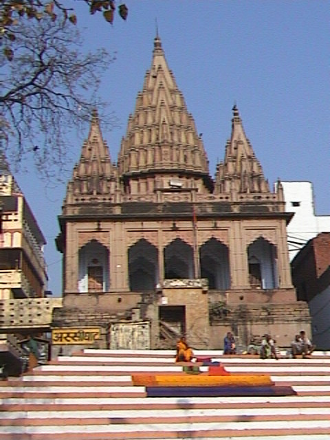 See Varanasi Development Cooperation Handbook/Stories/Responsible Development - Varanasi The Varanasi Heritage Dossier Kautilya Society Play media Vrinda Dar - How we got involved in heritage protection of Varanasi